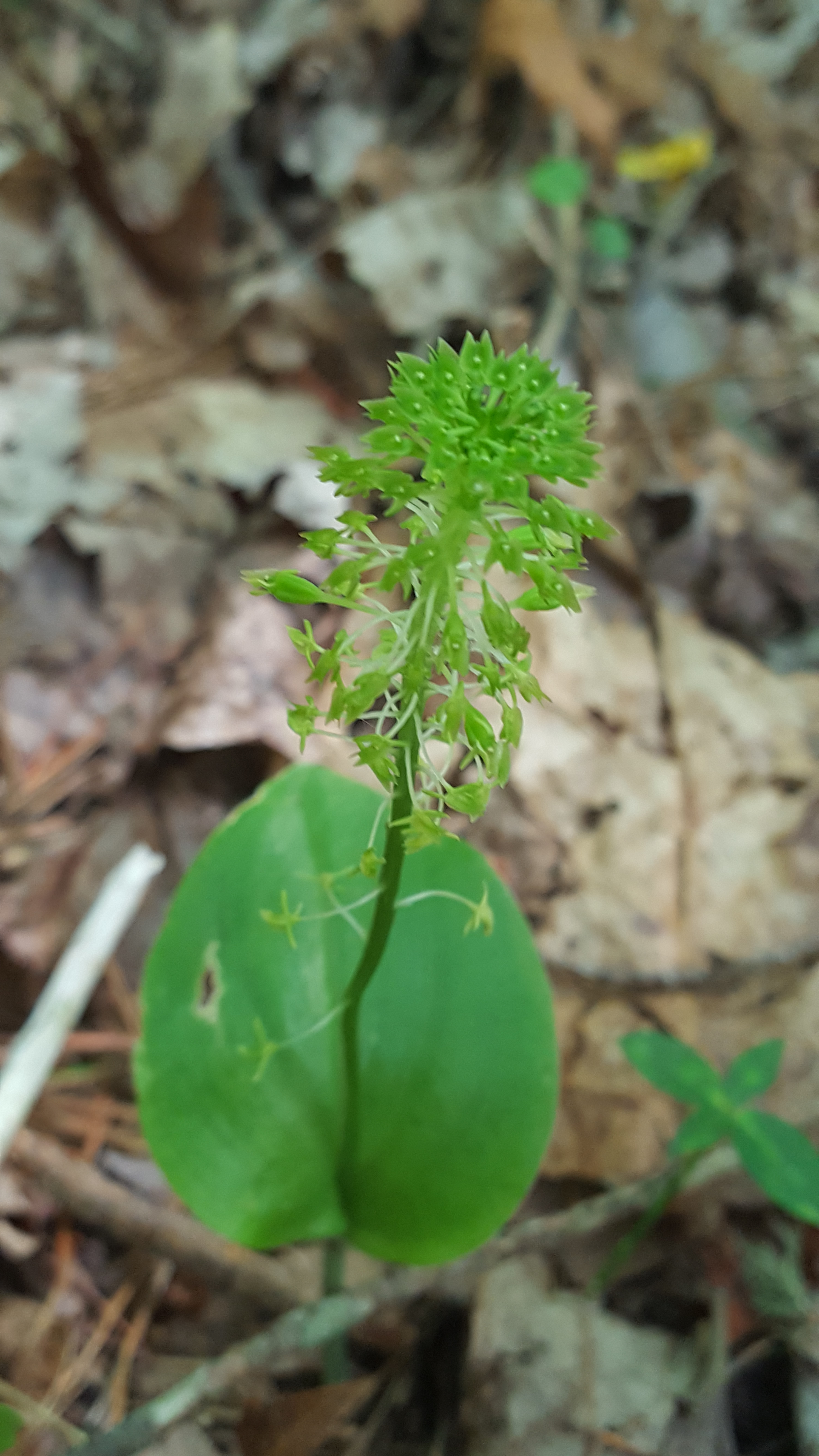 Malaise. i personally took this pict in southern Cumberland Tn. USA